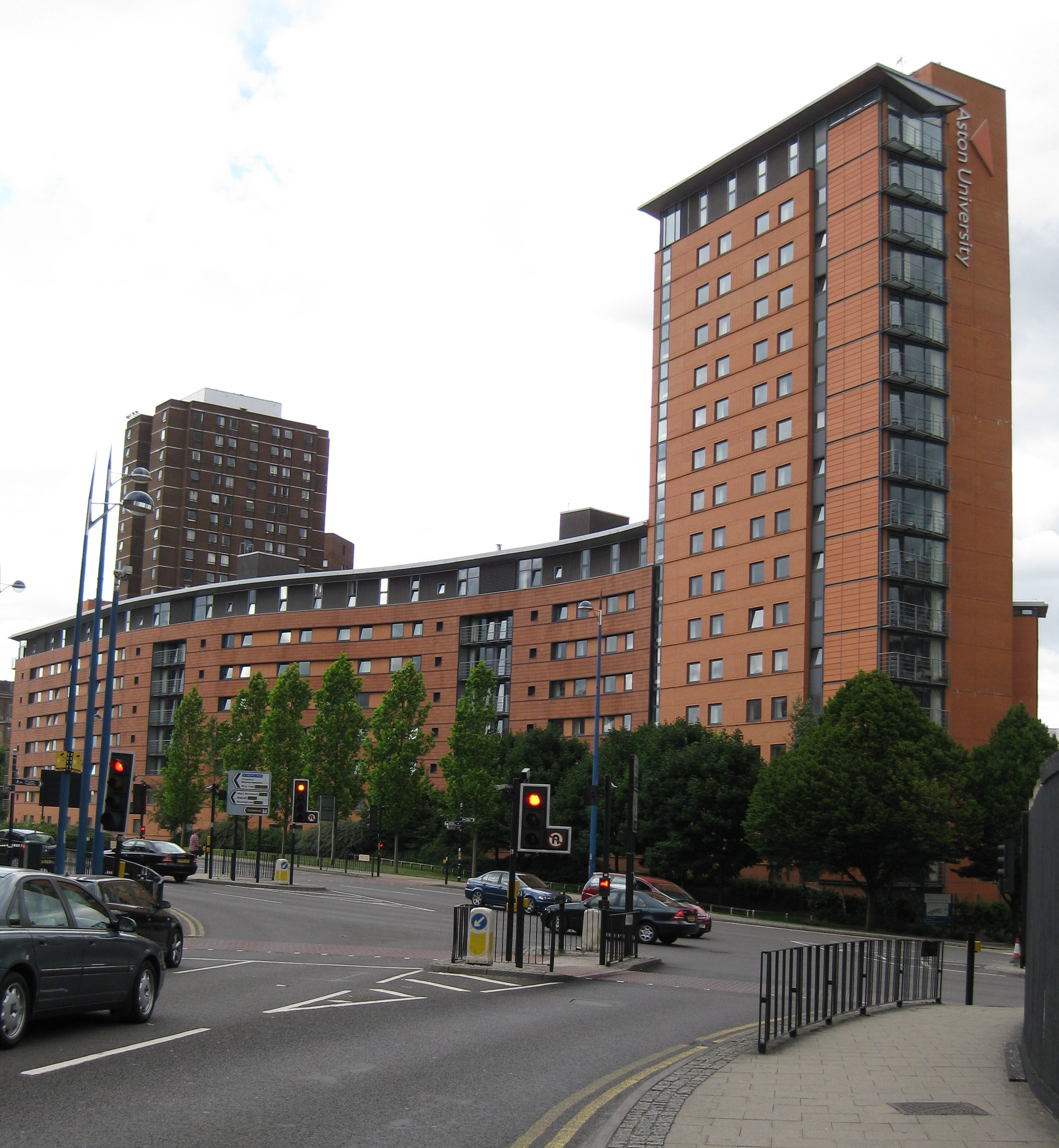 Lakeside Student Residences, University of Aston in Birmingham, England.